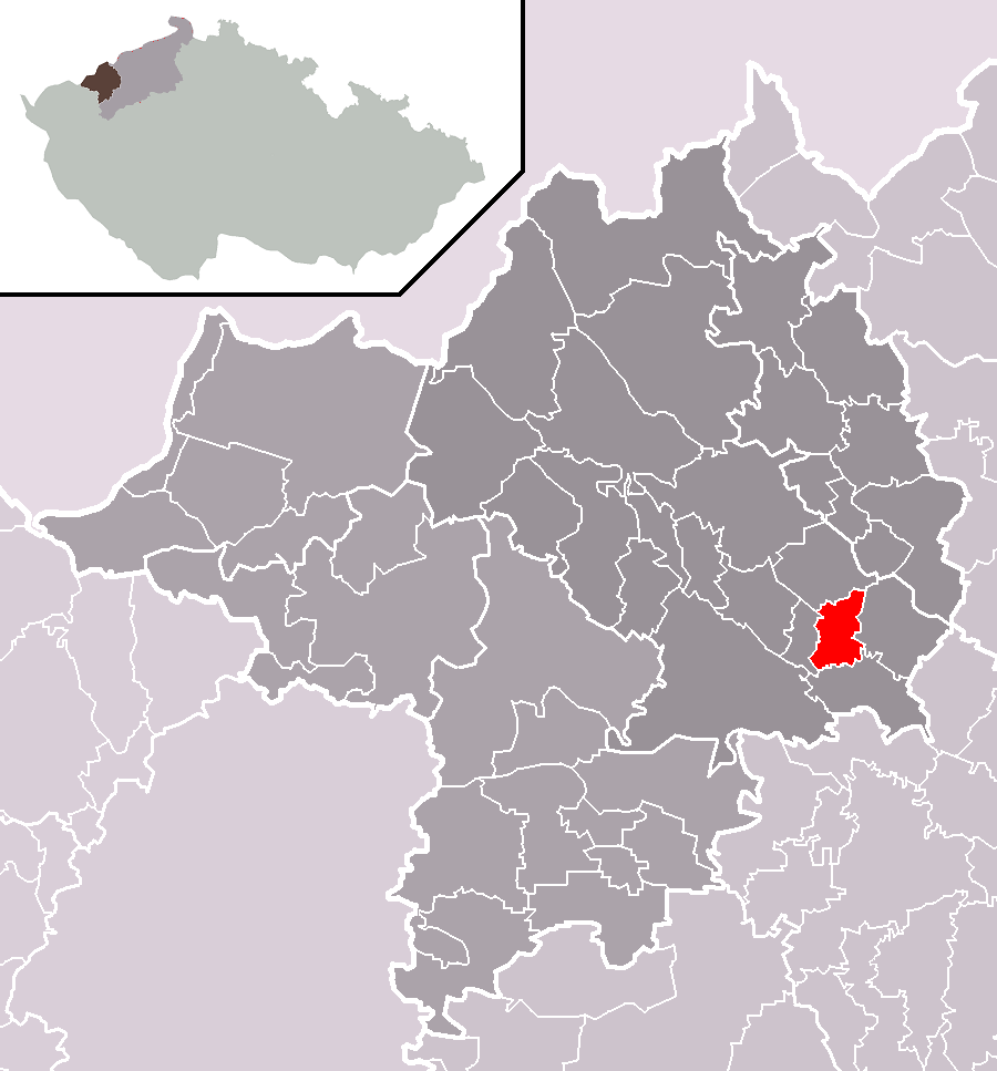 Location of Nezabylice municipality within Chomutov District and administrative area of Chomutov as a Municipality with Extended Competence.